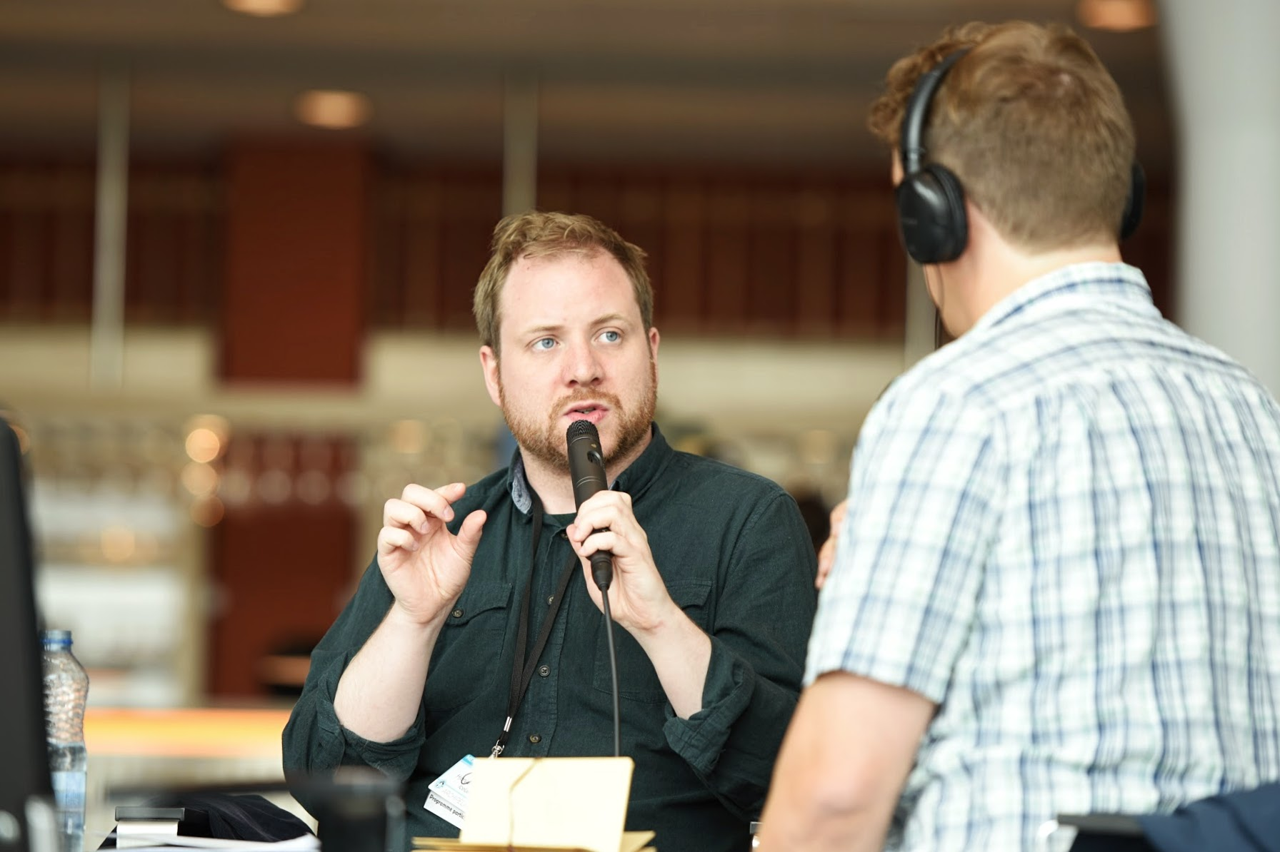 Icelandic writer Emil Hjörvar Petersen being interviewed at Archipelacon 2015.